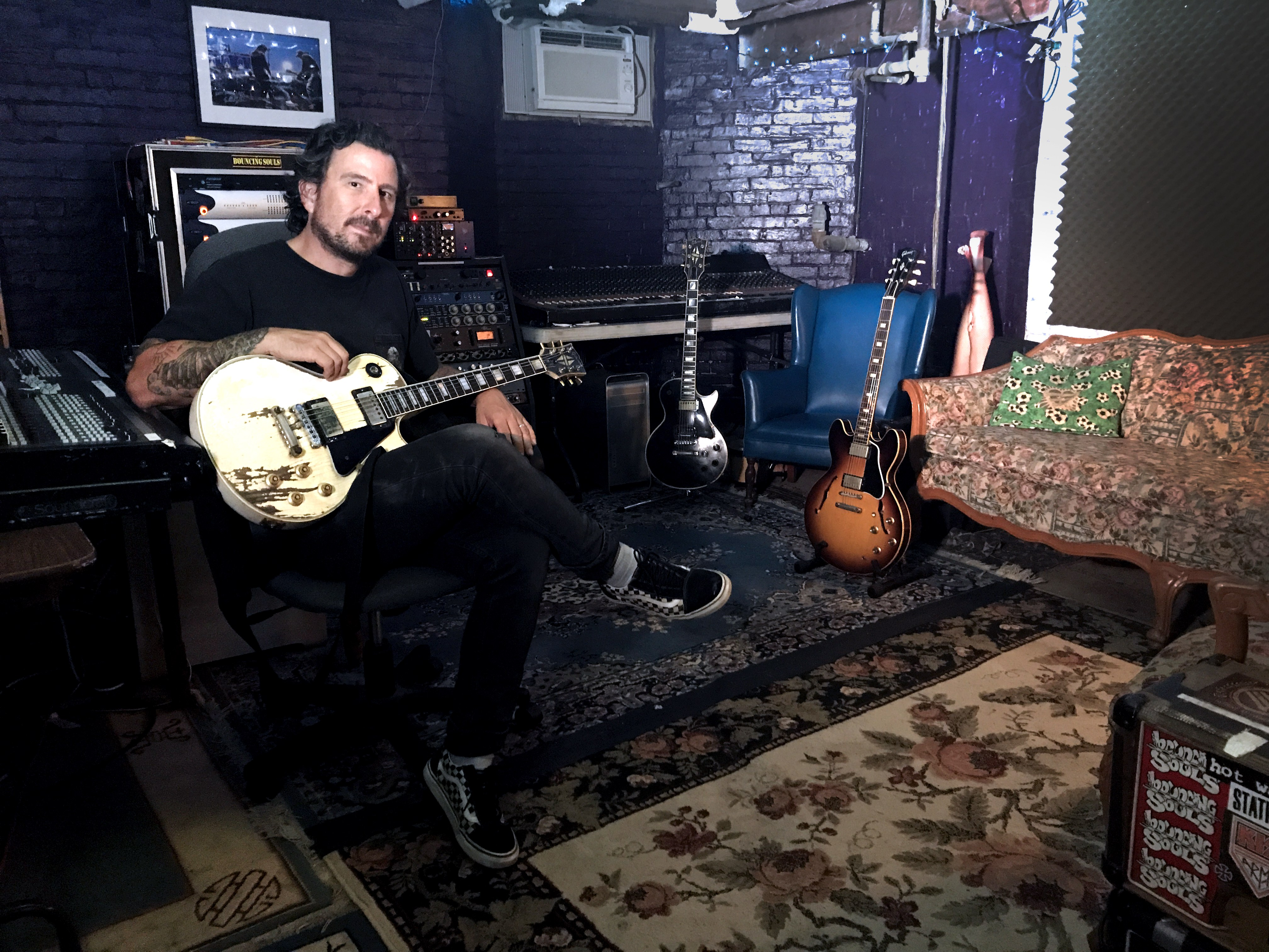 Pete at Little Eden